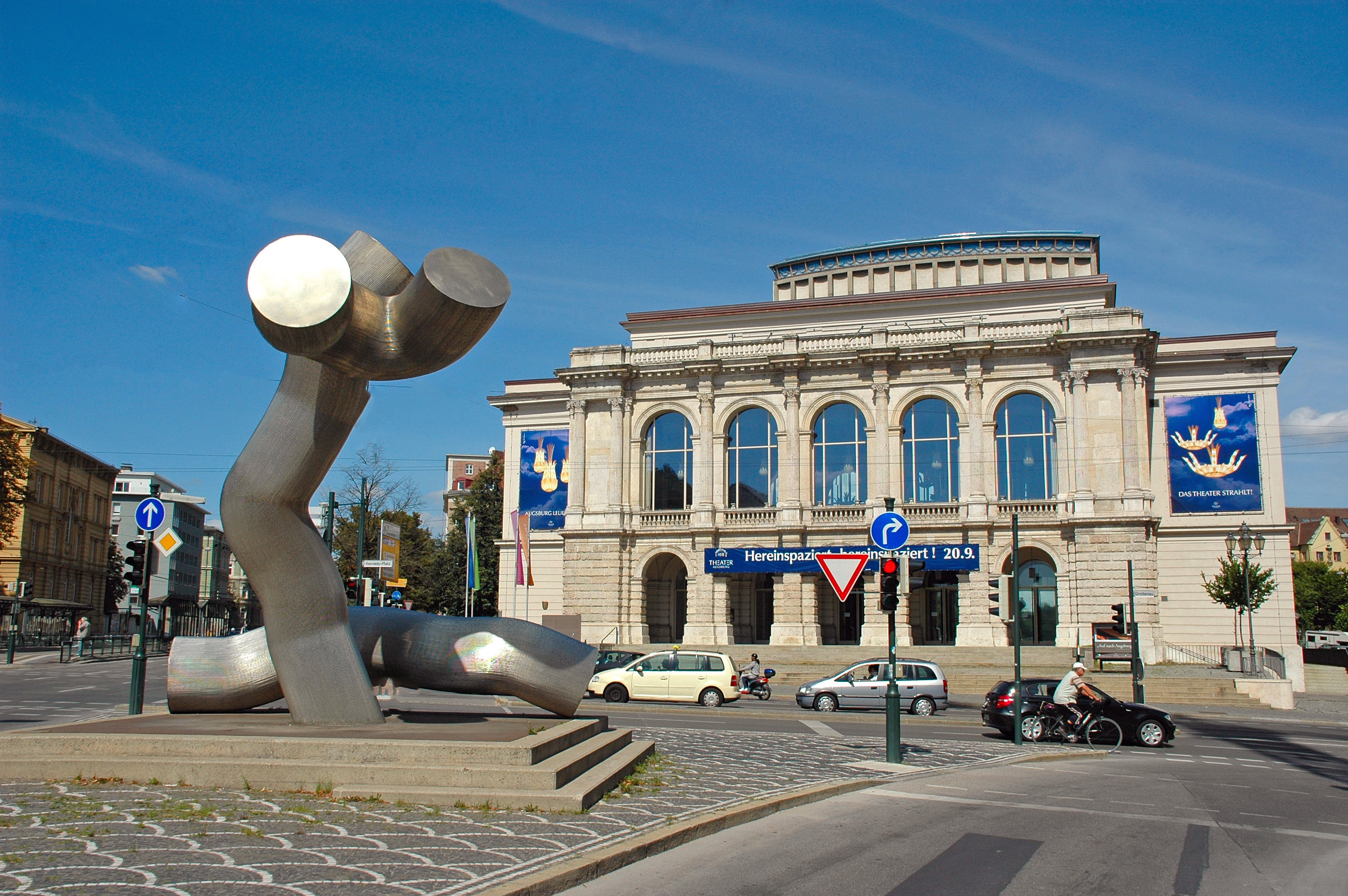 Theatre of Augsburg, Augsburg (Germany)